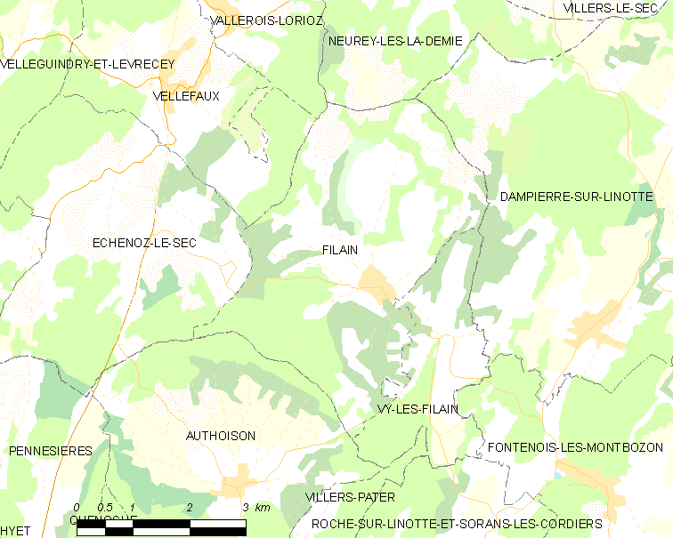 Map of French municipality